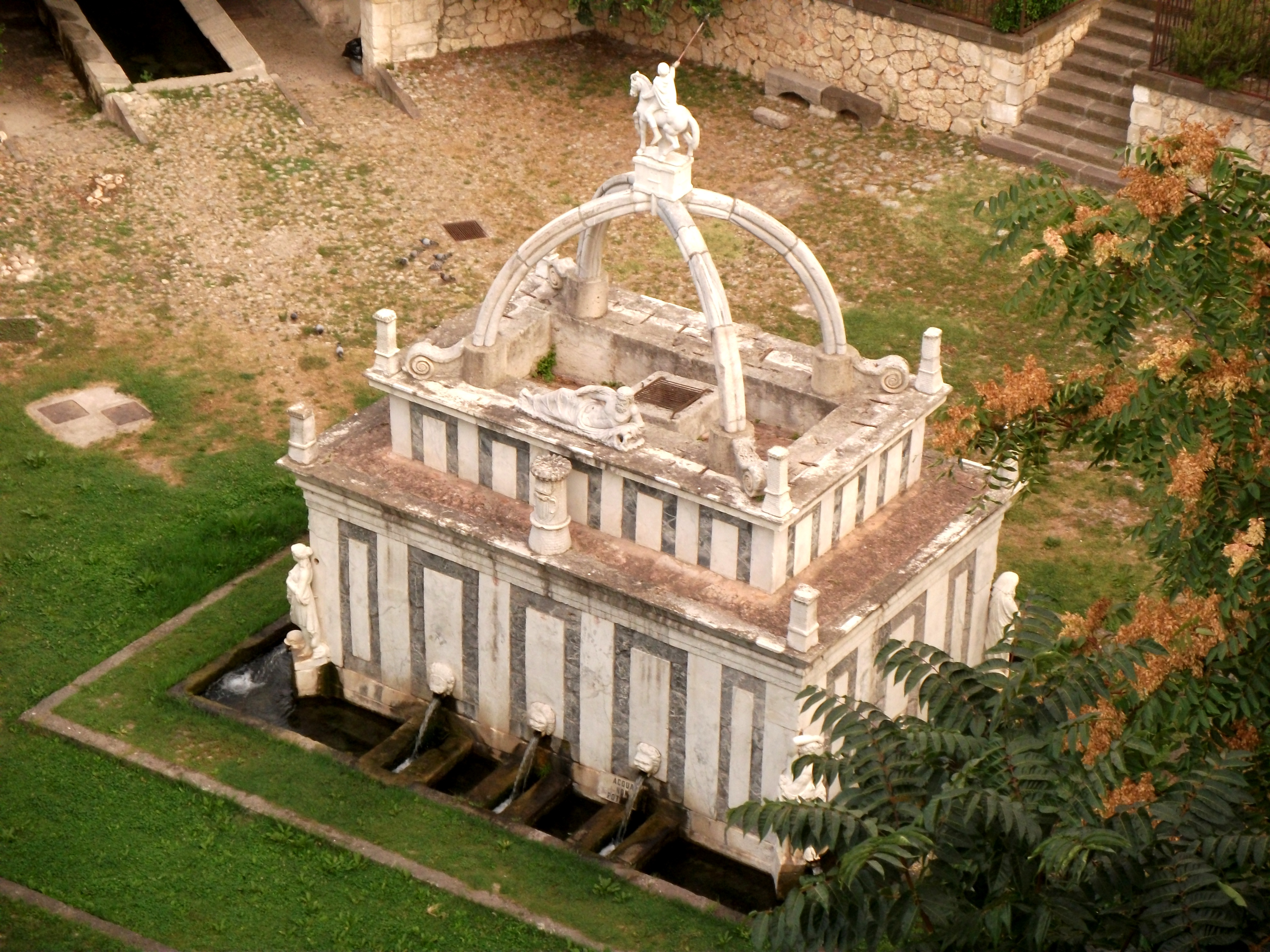 Rosello fountain in Sassari